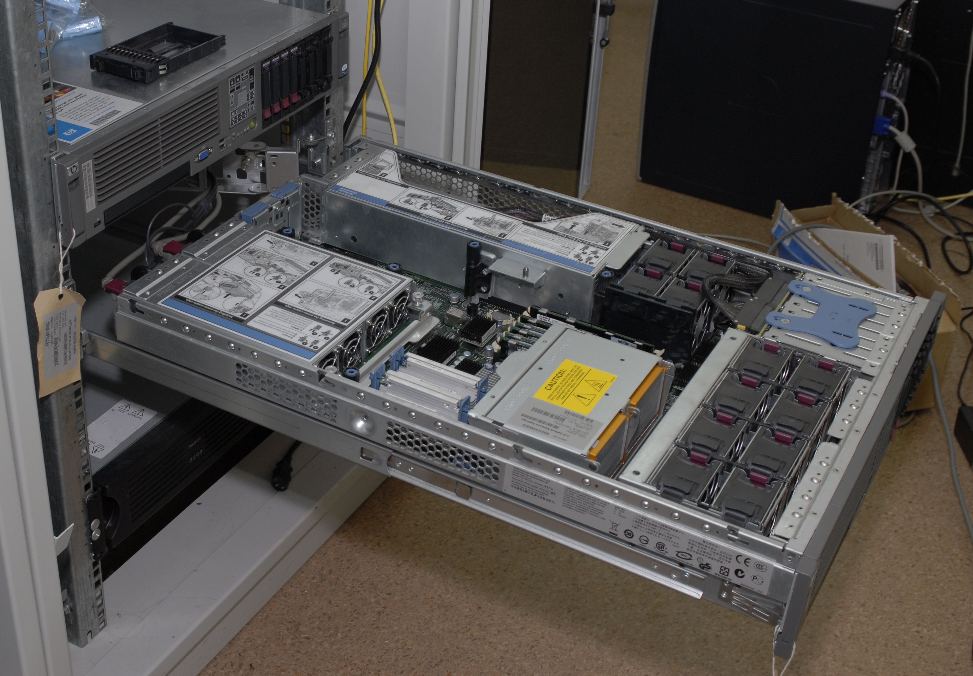 HP ProLiant DL380 G5 inside